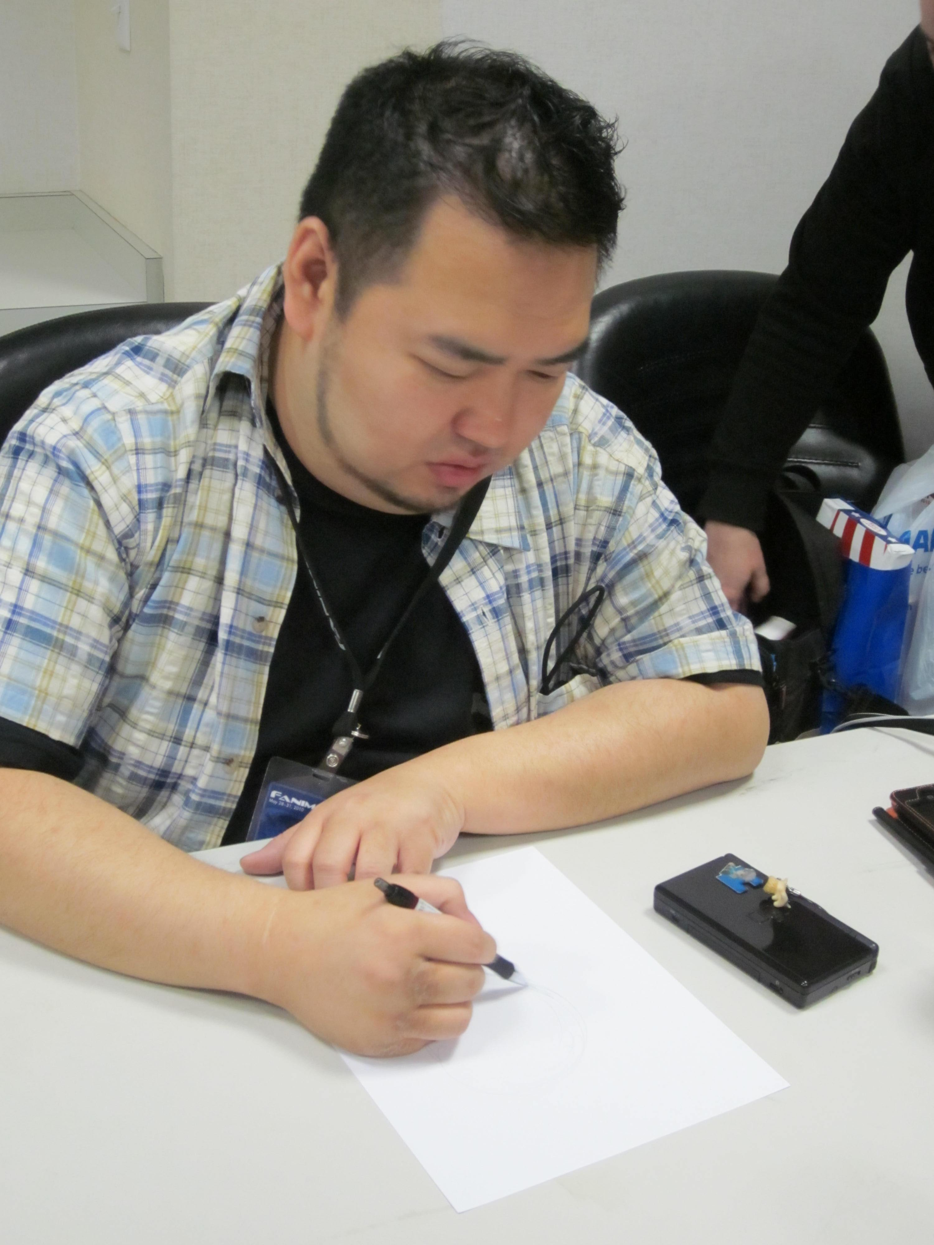 Illustrator Mamoru Yokota doing sketches for fans at his signing at FanimeCon 2010 in San Jose, California.